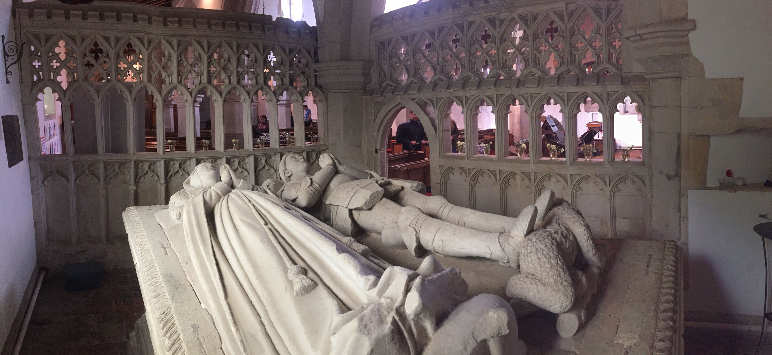 The Pendley Chapel, Church of St. John the Baptist, Aldbury, Hertfordshire - carved stone recumbent tomb of Sir Robert Whittingham (d.1471) and his wife